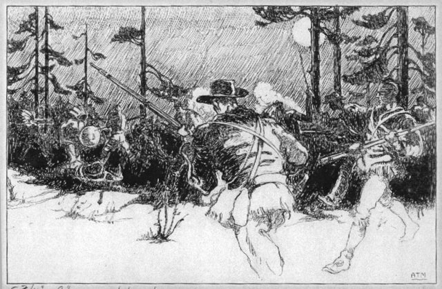 John C. Frémont attacked by Indians, ink drawing by Arman Manookian, Honolulu Academy of Arts